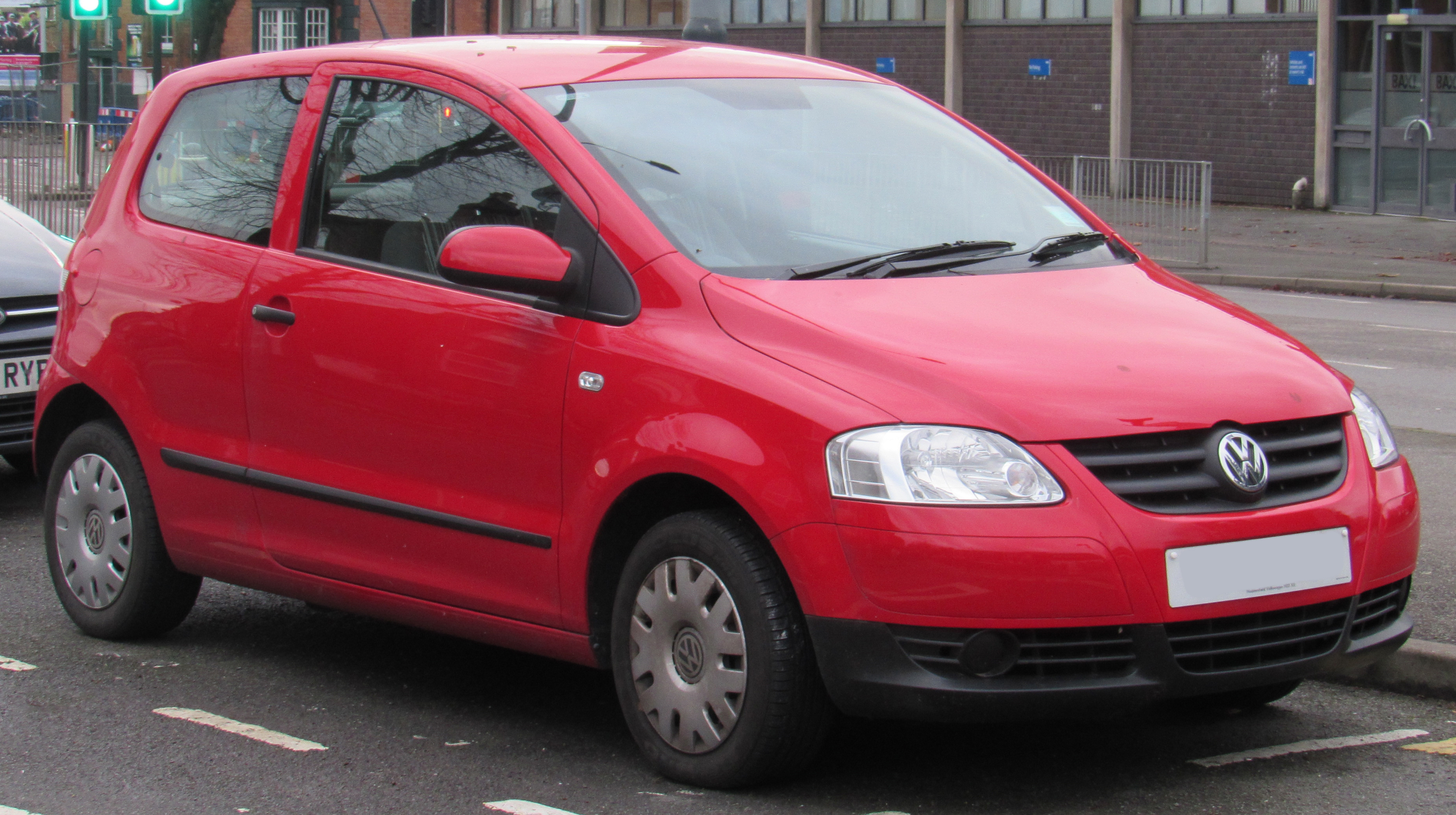 2010 Volkswagen Fox 1.4 Front Taken in Warwick